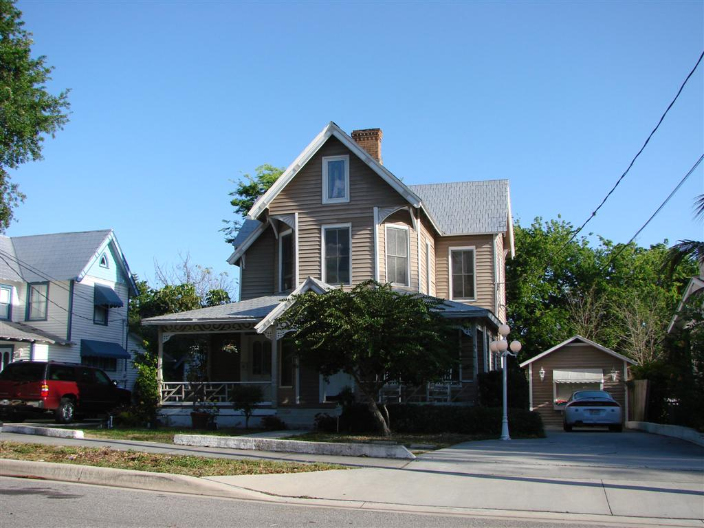 A house in the Barton Avenue Residential District located in Rockledge, Florida. March 24, 2007.